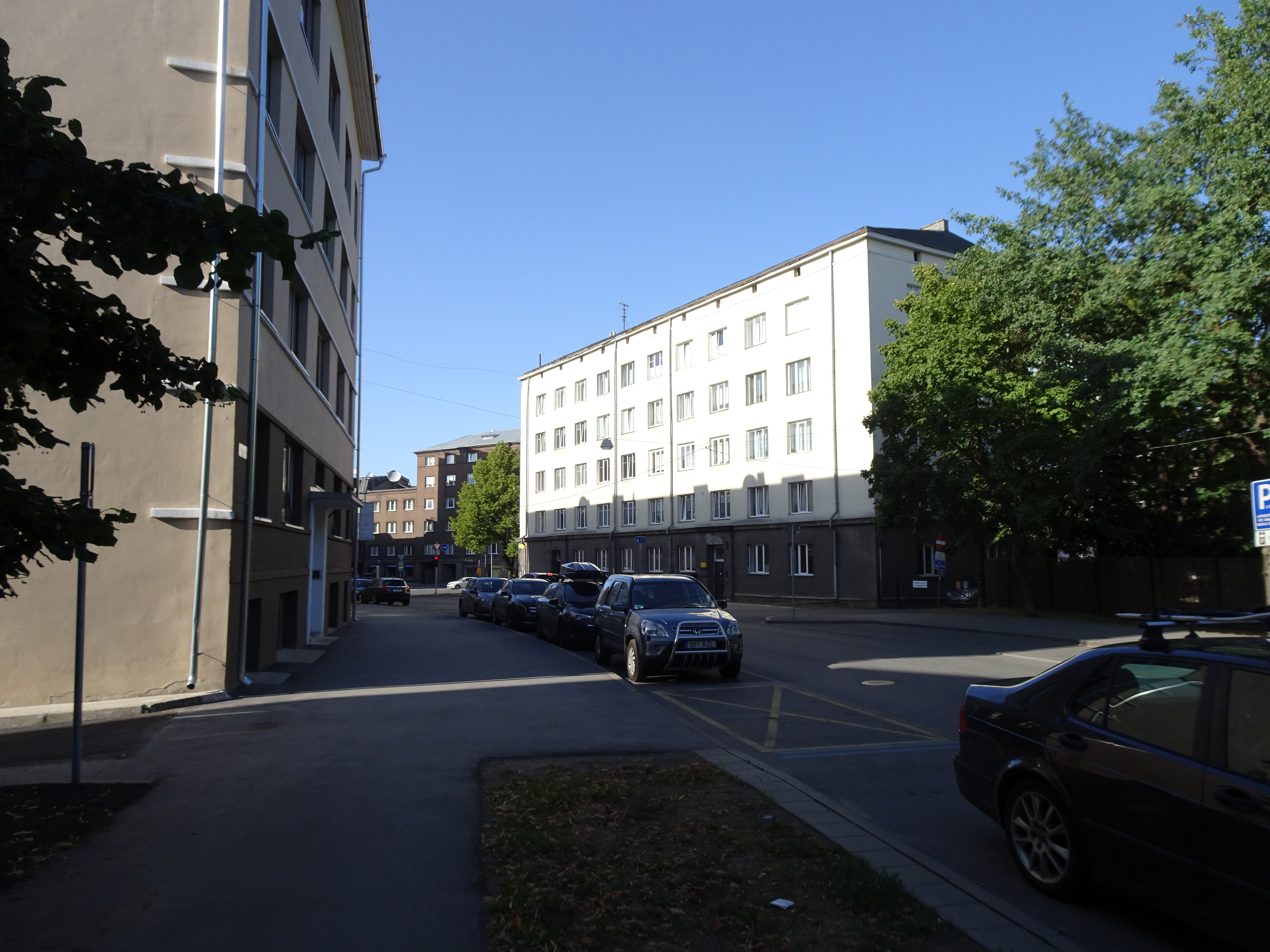 Hospidali Street (Hospidali tänav) in Tallinn, Estonia